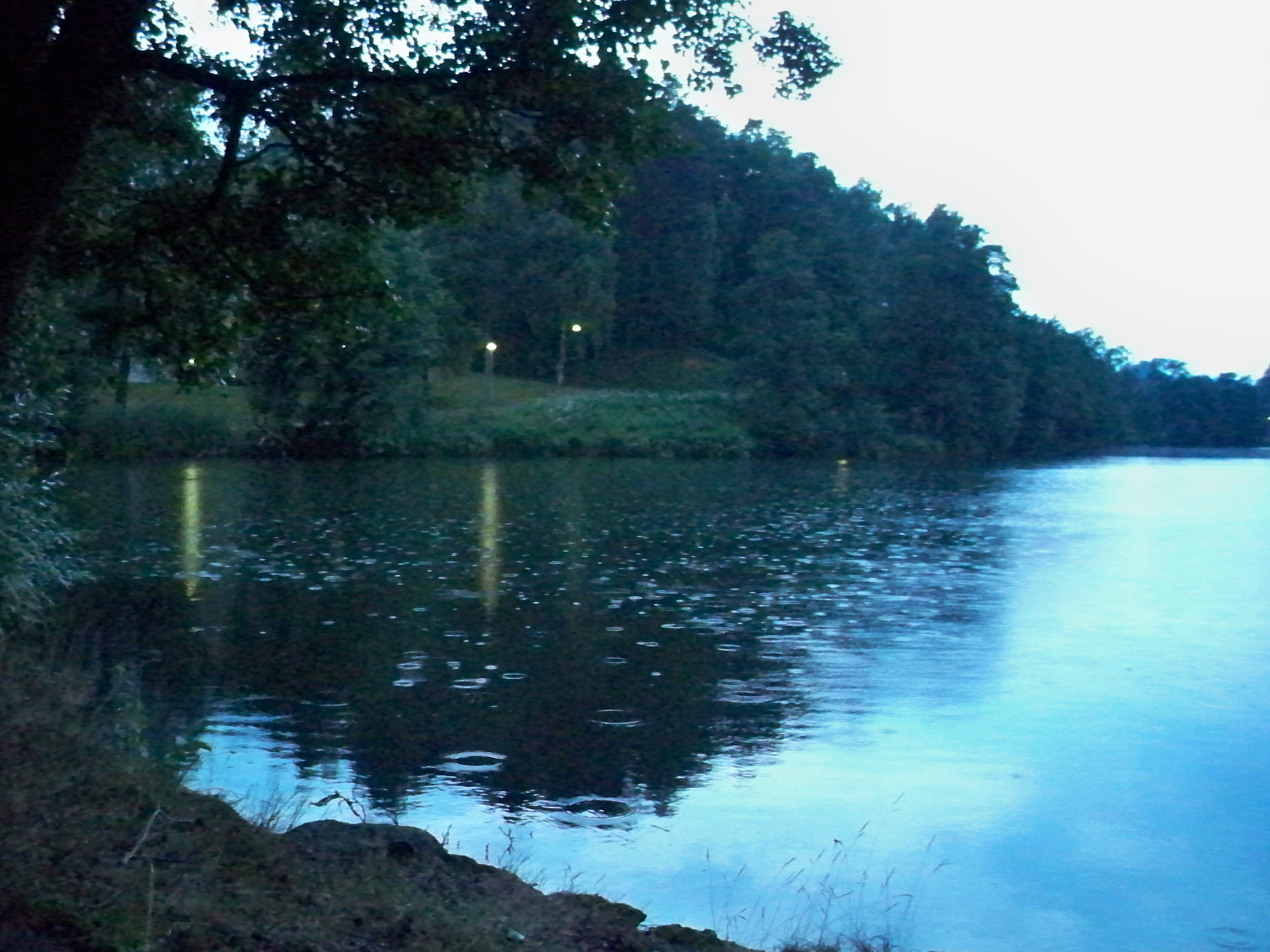 Hill of gallows in early morning rain, by the lake Ramnasjön, City of Borås, Sweden